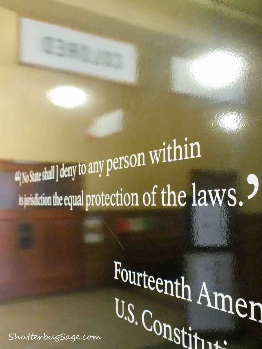 14th Amendment sign at the entrance of the Brown v Board of Education Historical Site in Topeka, KS. The "Colored" and "White" signs are reflected in the sign.